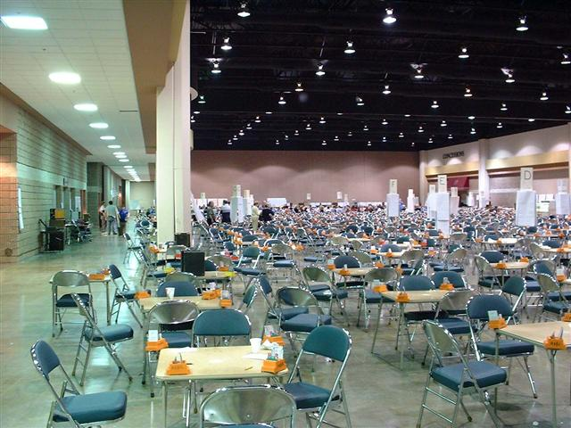 Bridge tournament playing area, Gatlinburg Tennessee convention center, April 2002. Photo taken by myself.